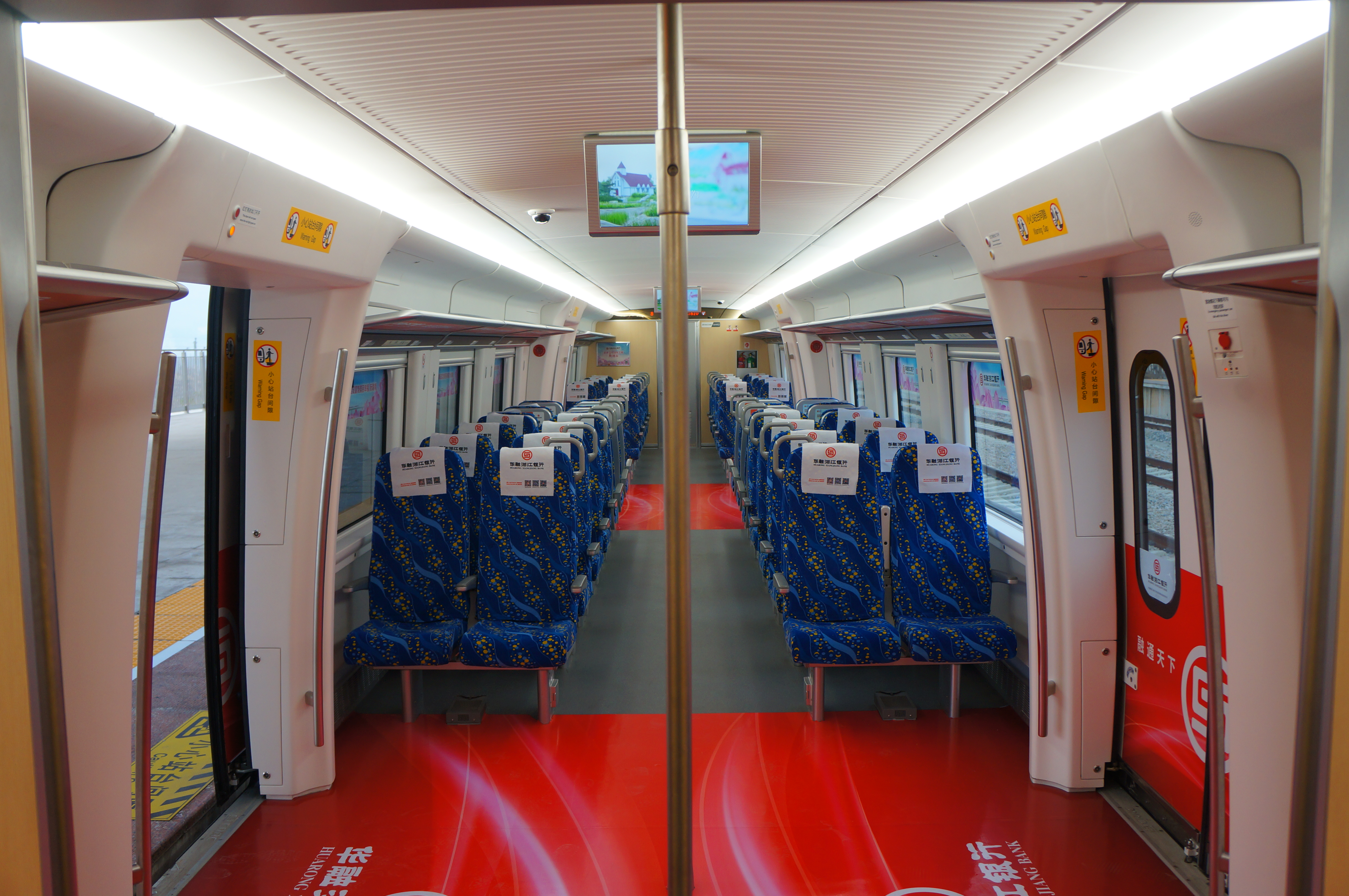 201712 Interior of CRH6F-0433